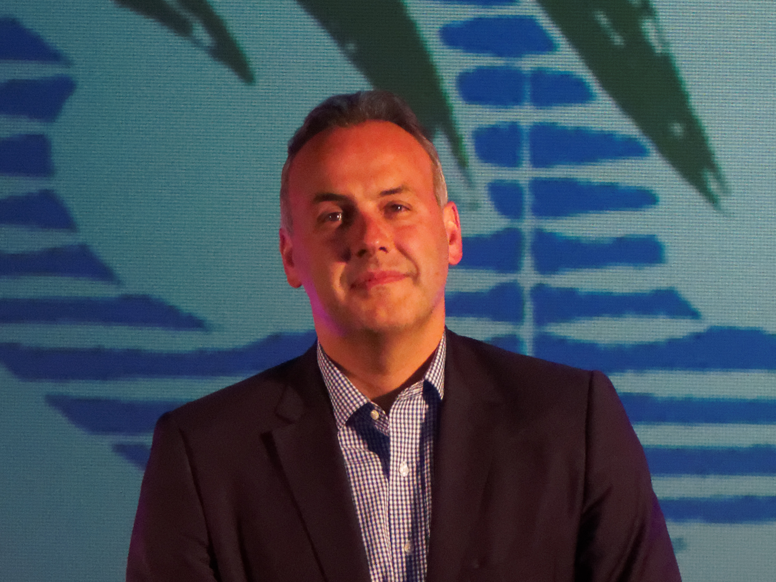 Giorgos Papanikolaou, mayor of Glyfada.